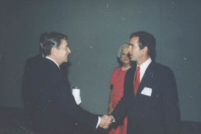 President Reagan, Louise Upshaw-McClenny, Dick Fitzgerald, Lloyd Lauland, (Not in all Photos) (3-12) shaking hands, unidentified people President Reagan, George Bush, Barbara Bush, James Baker, Frank Fahrenkopf, MB Oglesby, (Not in all Photos) (13-25) Trip to Texas, fundraiser for George Bush President Reagan, George Bush, Barbara Bush (26-28) Trip to Texas, fundraiser for George Bush President Reagan, Barbara Bush, John Tower (29) Trip to Texas, photo op with John Tower President Reagan, George Bush, Barbara Bush, George W. Bush (30-34) Trip to Texas, photo op with George W. Bush